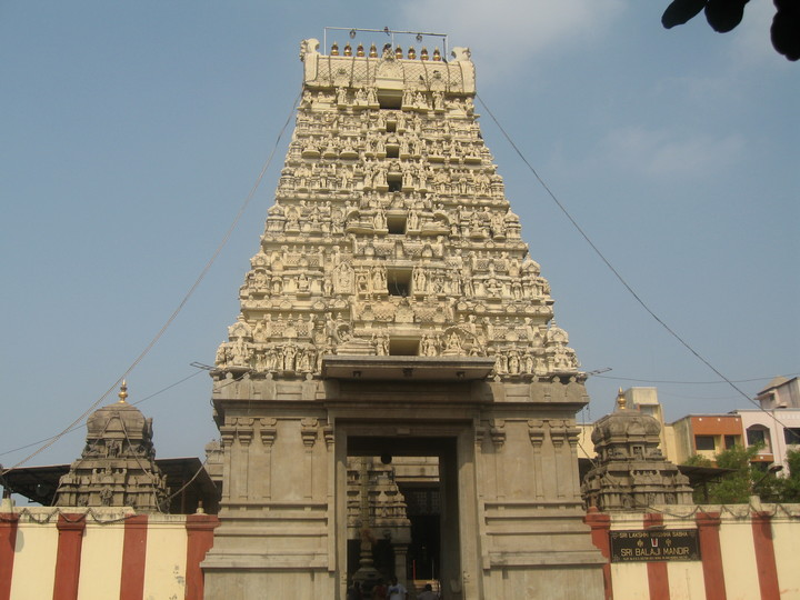 This photo is clicked by self. This photo can be downloaded and distributed by anyone. This place is a Hindu Temple frequented by religious minded people. The photo is created by self using own camera and is being released to the public domain.